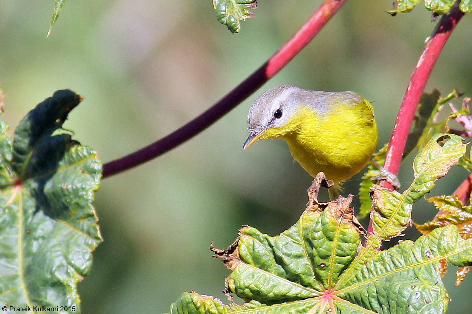 This image has been captured near river Chaffi in Uttarakhand in India in December 2015.